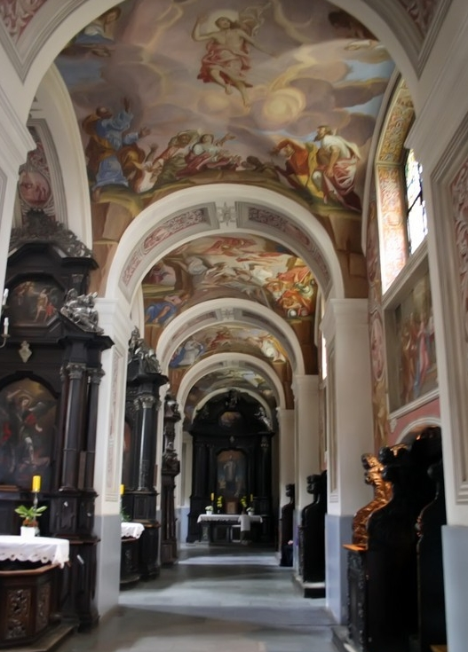 Święta Lipka, (Poland, Warminian-Masurian Voivodship), view of sancturay of St. Mary